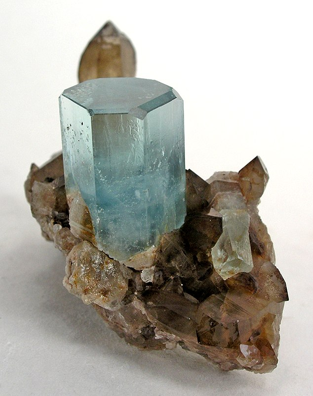 Beryl Locality: Erongo Mountain, Usakos and Omaruru Districts, Erongo Region, Namibia (Locality at ) Size: small cabinet, 7.0 x 4.2 x 3.9 cm Aquamarine An exquisite specimen, one of my absolute favorites, featuring a sharp, VERTICALLY upright aqua perched on matrix of crystallized smoky quartz. From Erongo, the smoky quartz association is uncommon but you find it from time to time. Pakistan occasionally has aquas in association with smoky quartz, but generally not with aqua of this calibre. The aqua itself is pristine and measures 2.5 cm tall (1 inch!) x 2 x 1.5 cm. When we got it from Charlie, it was coated by a thick layer of iron oxide "rust," which has been removed to reveal the perfection underneath - the caoting kept this exposed crystal pristine! Also, unusual for the Erongo aquas, this has a wonderfully bevelled termination AND extraordinary gemminess. Most Erongo aquas, although pretty and good blue in color, lack this kind of solid gemminess to them...hence , this is an exceptionally premium quality crystal on its own merit, aside from its matrix association.